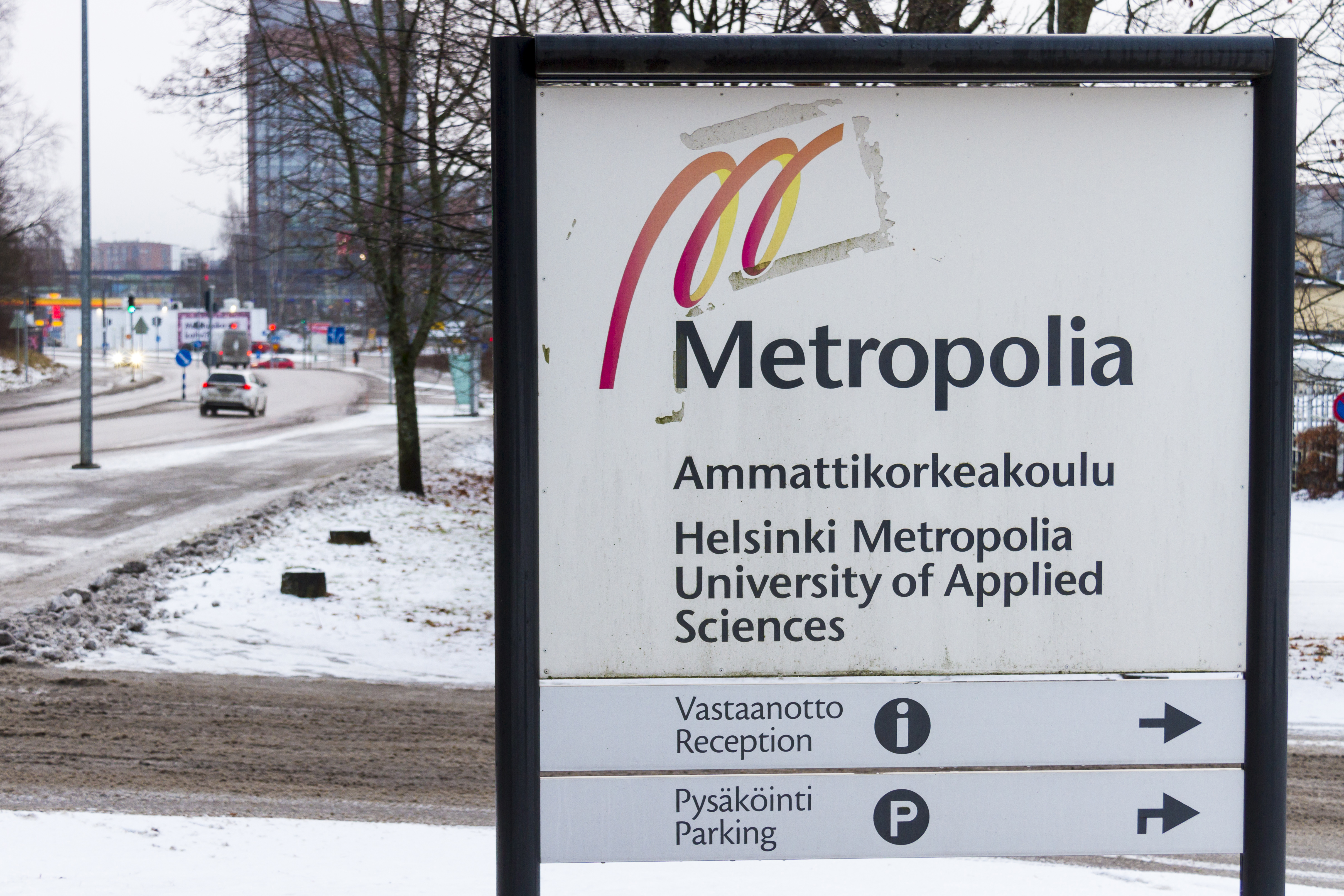 Sign where the logo has been protected from the direct sunlight due to the orientation of the sign.